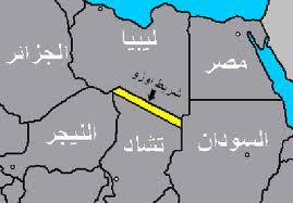 شريط أوزو الثري